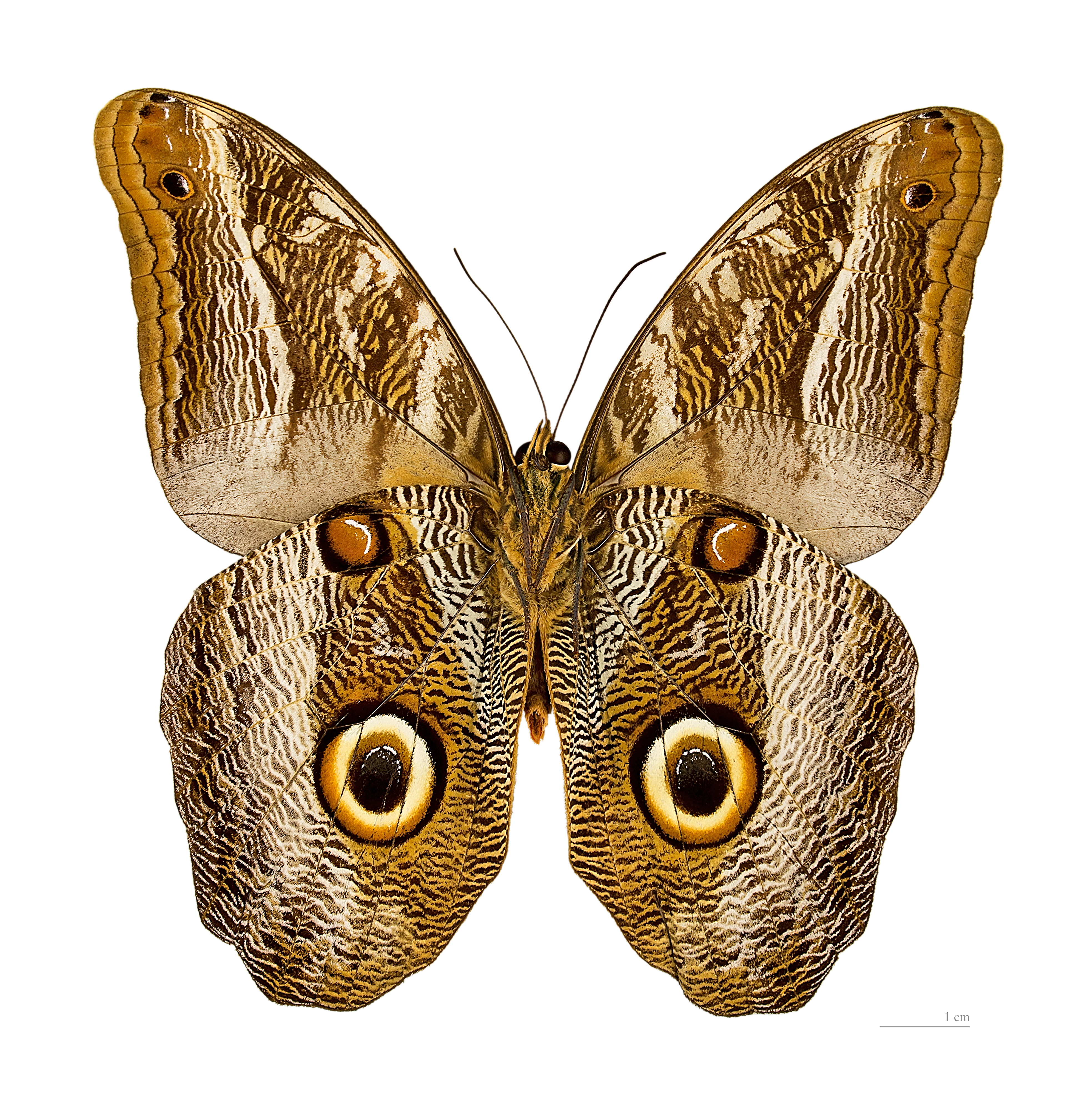 Idomeneus Giant Owl - △ Ventral side